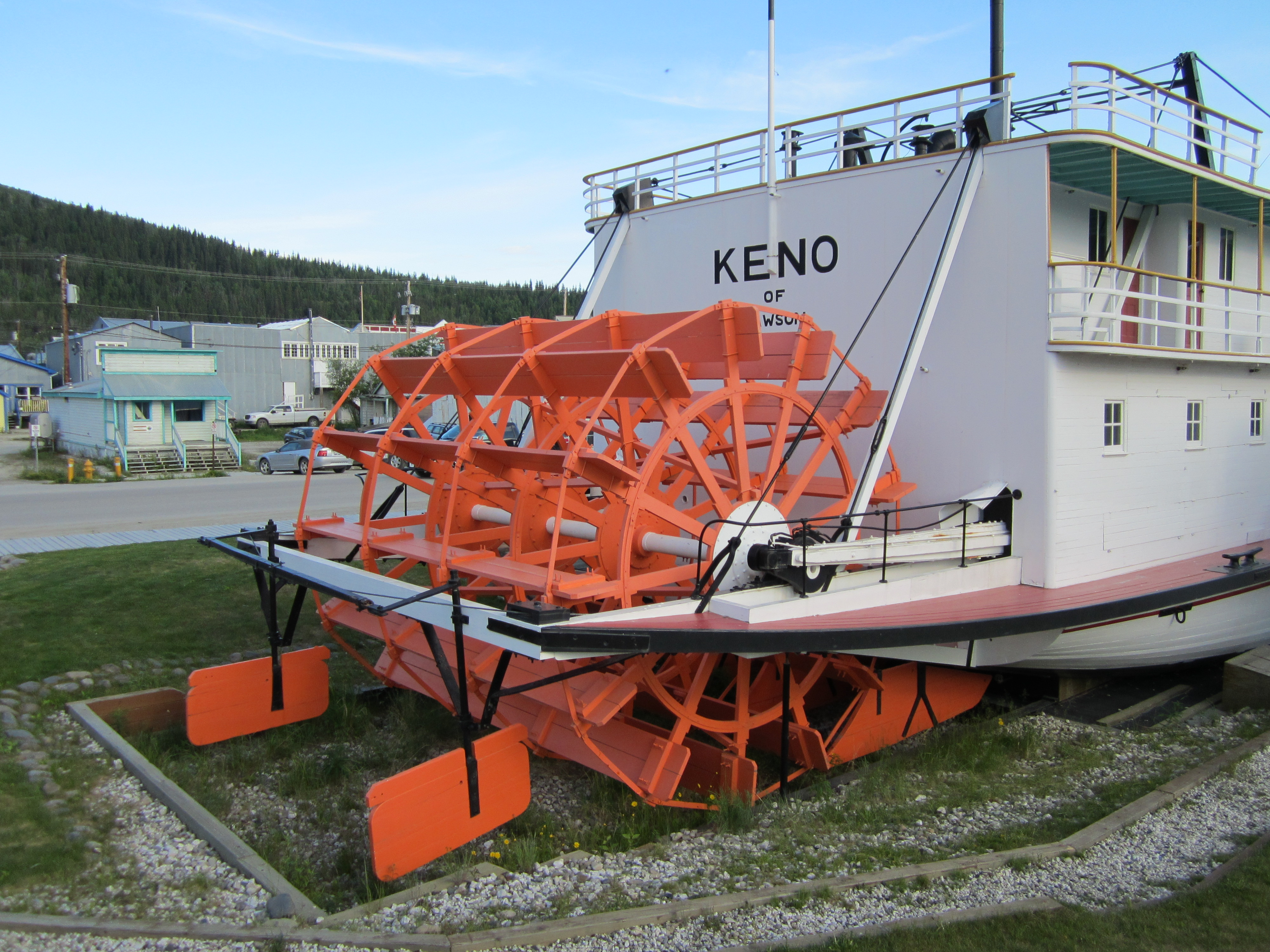 Paddlewheel of the SS Keno in Dawson City, Yukon